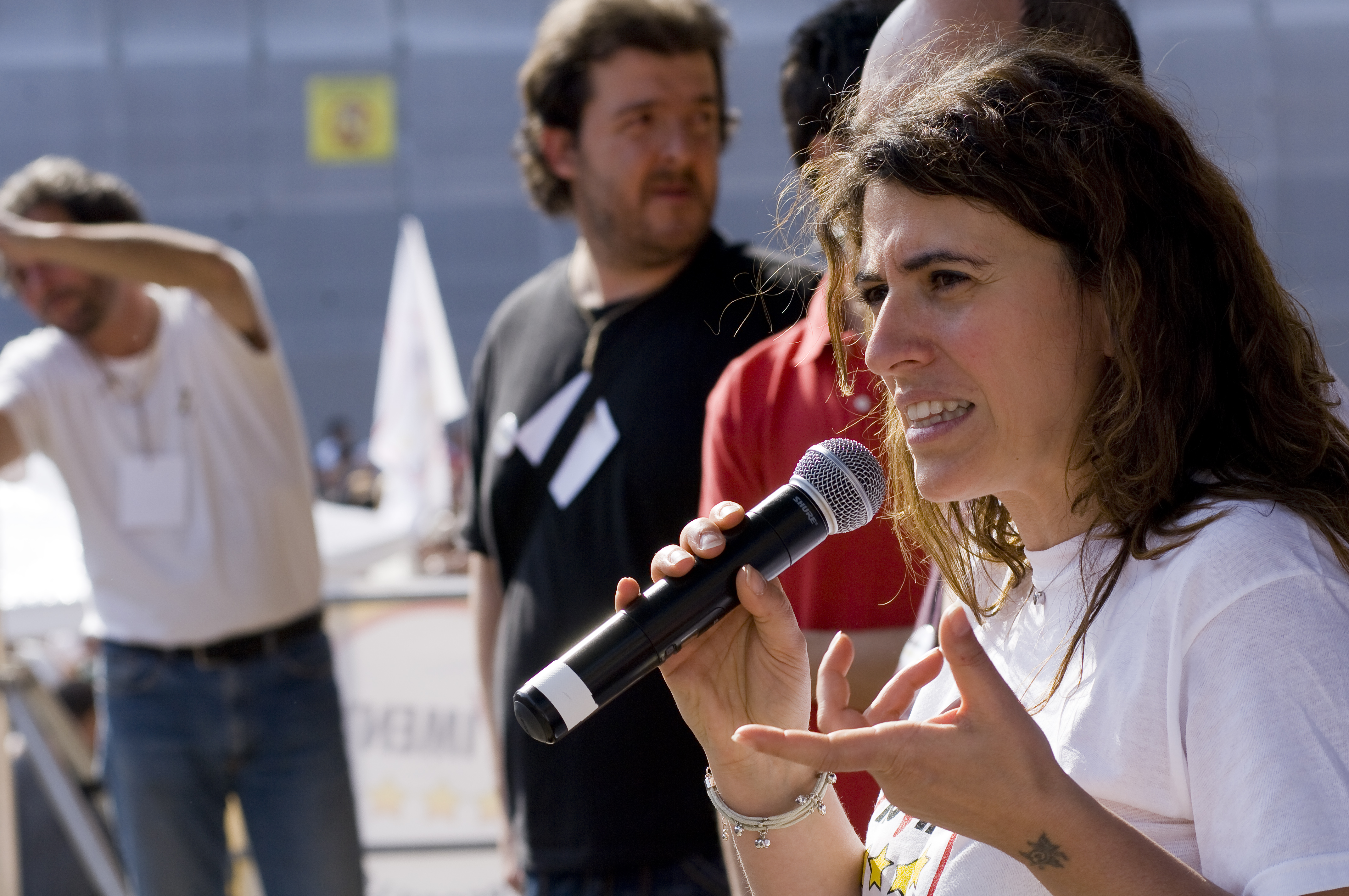 Federica Salsi.